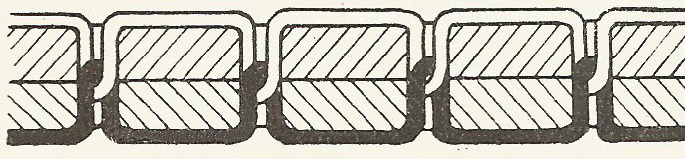 Lockstitch